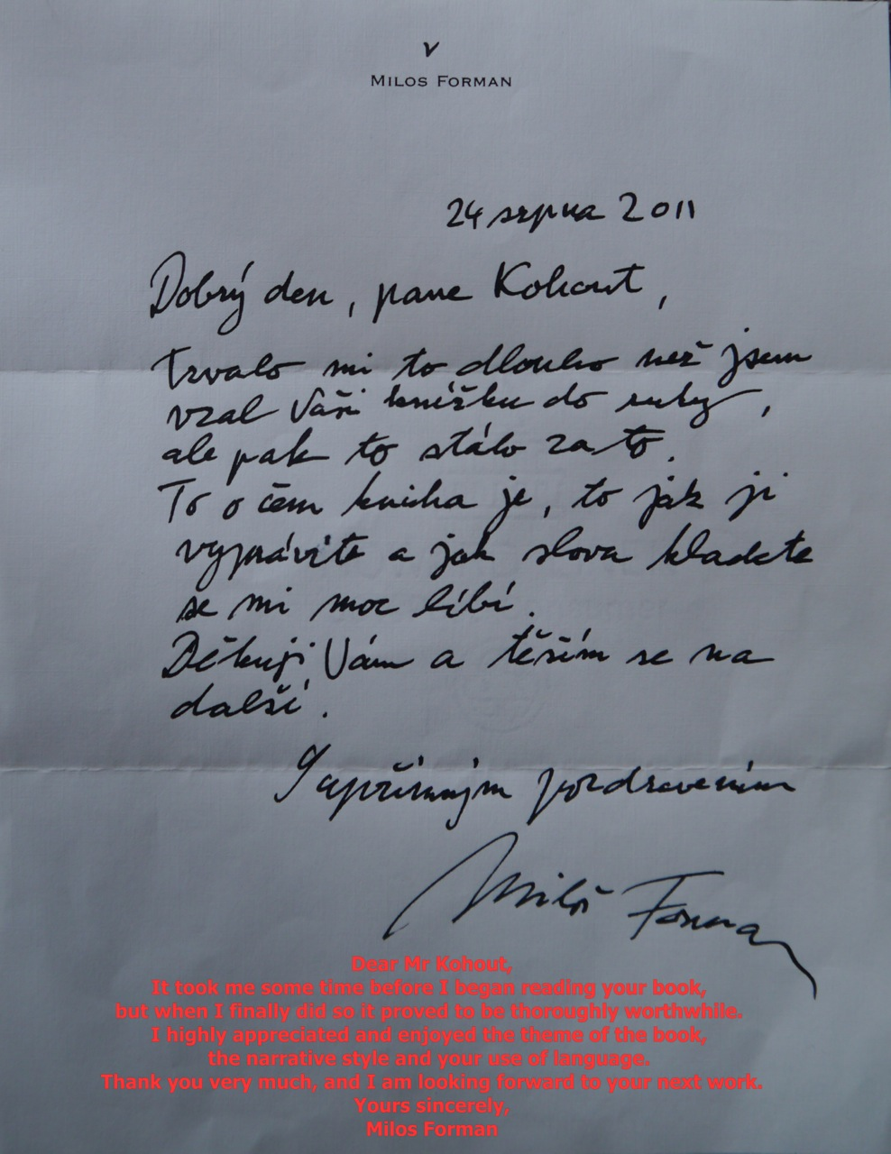 A letter by Milos Forman to Milan Kohout praising his book.